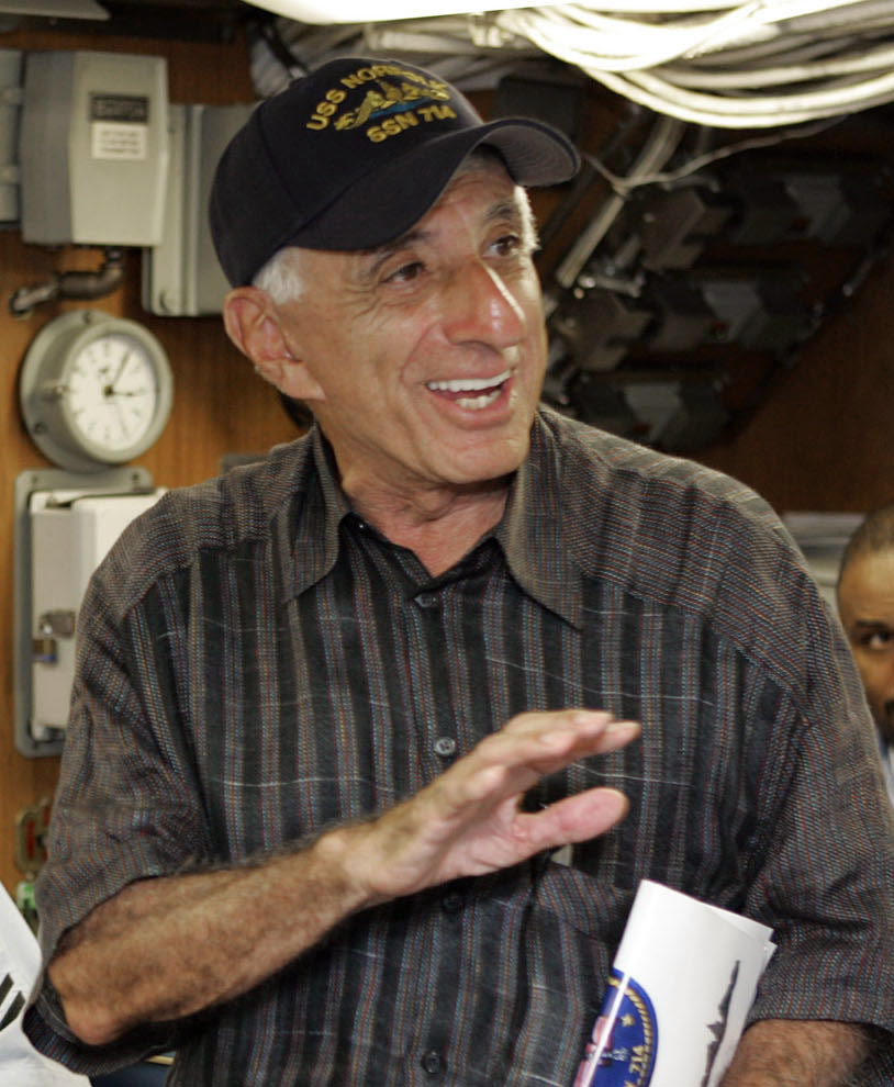 Jamie Farr, who played "Klinger" in the television show "Mash" meets members of the crew of attack submarine USS Norfolk (SSN 714).